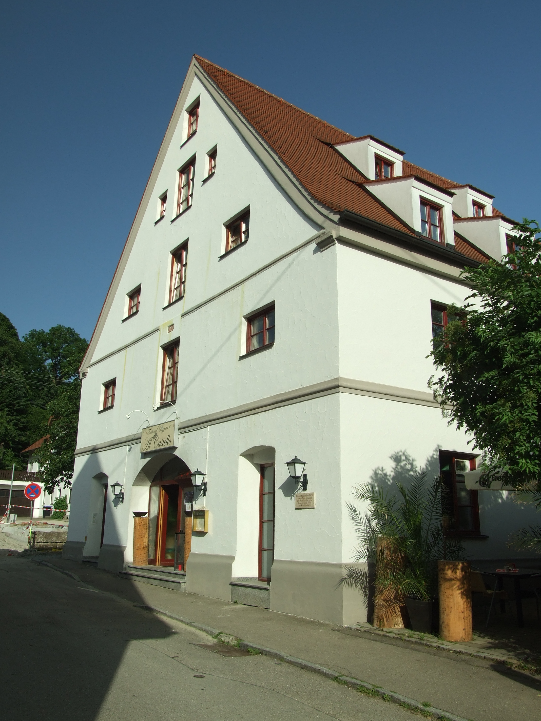 Frauenstraße 1 Former so called Frauenhaus